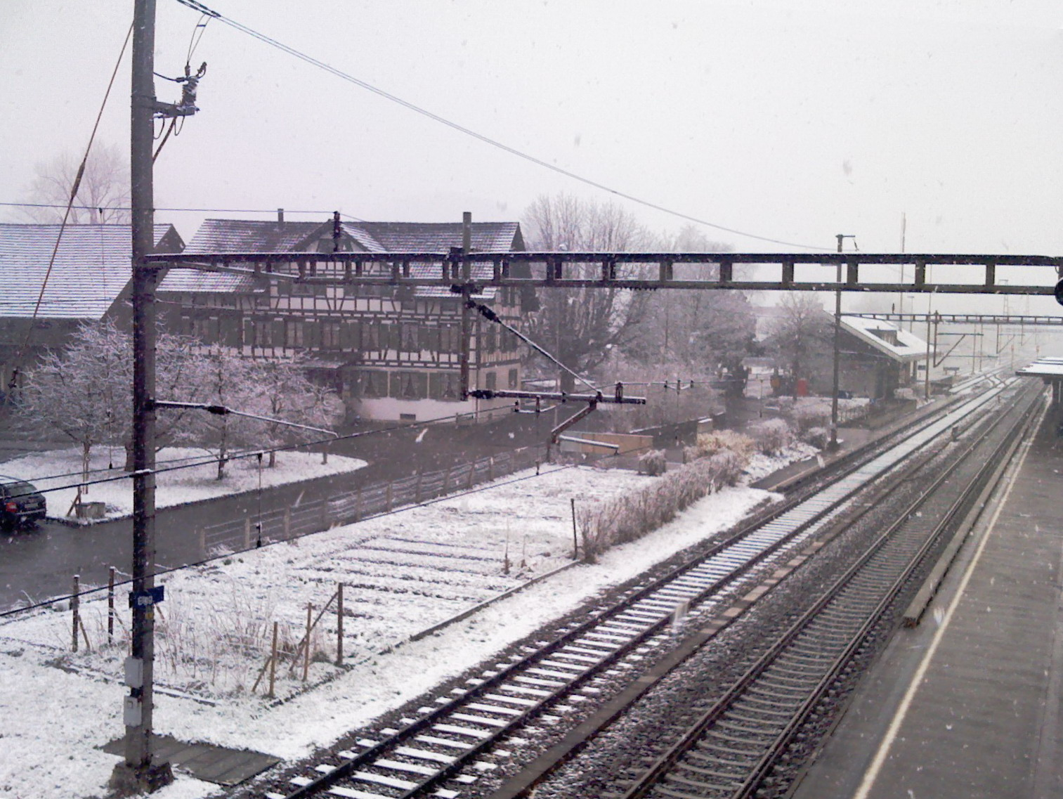 Elgg Railway station from the bridgxe, Canton Zurich, Switzerland - Elgg Stacidomo de la ponto, Kantono Zuriko, Svislando